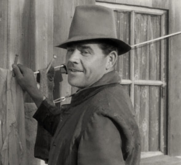 Pat Flaherty in My Man Godfrey - cropped screenshot